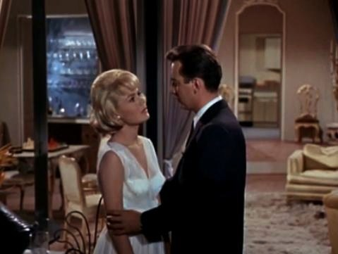 Sandra Dee and Bobby Darin in That Funny Feeling (1965) - trailer (cropped screenshot).